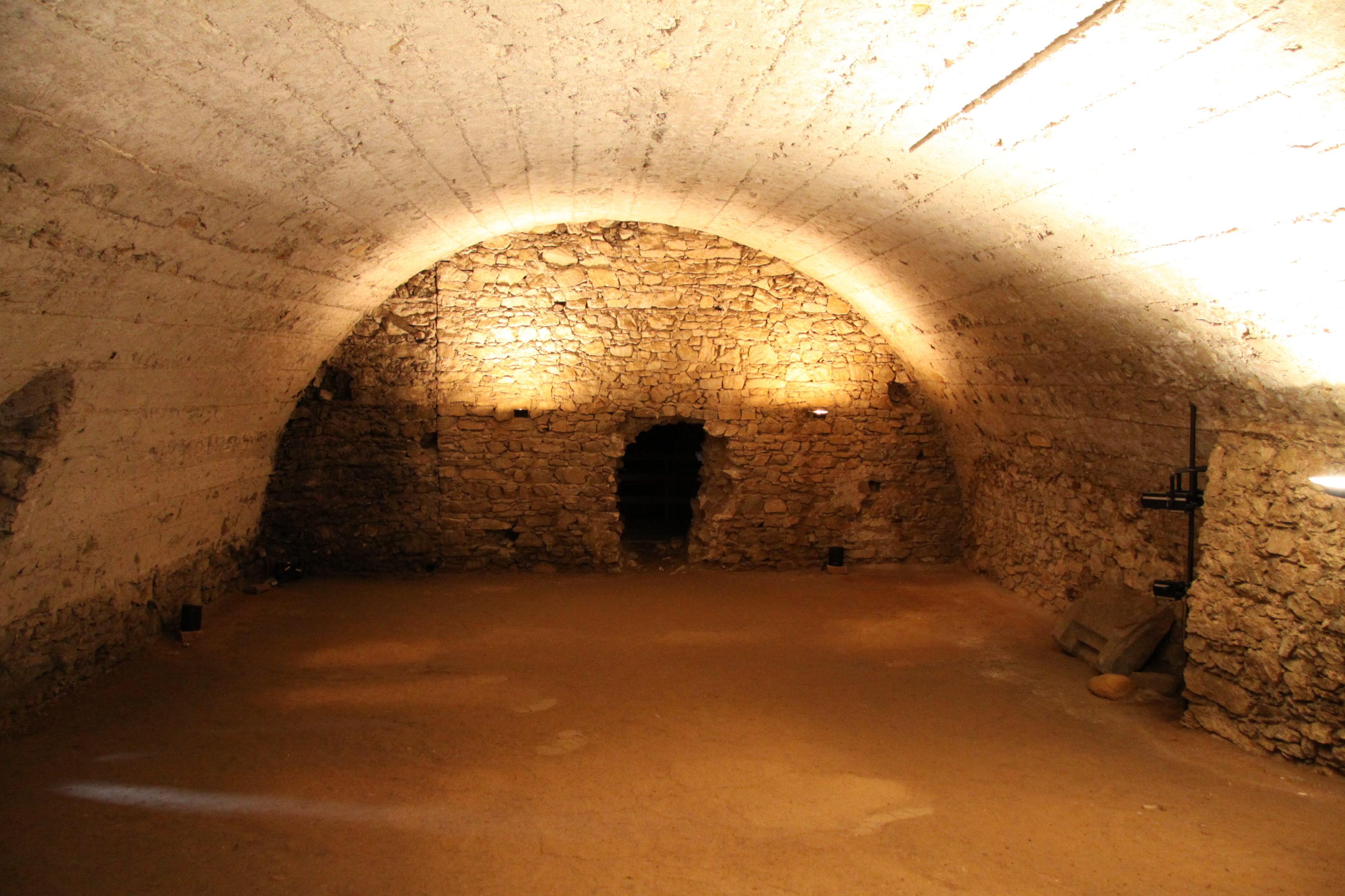 Undeground of Castle Rabí in Klatovy District, Czech Republic